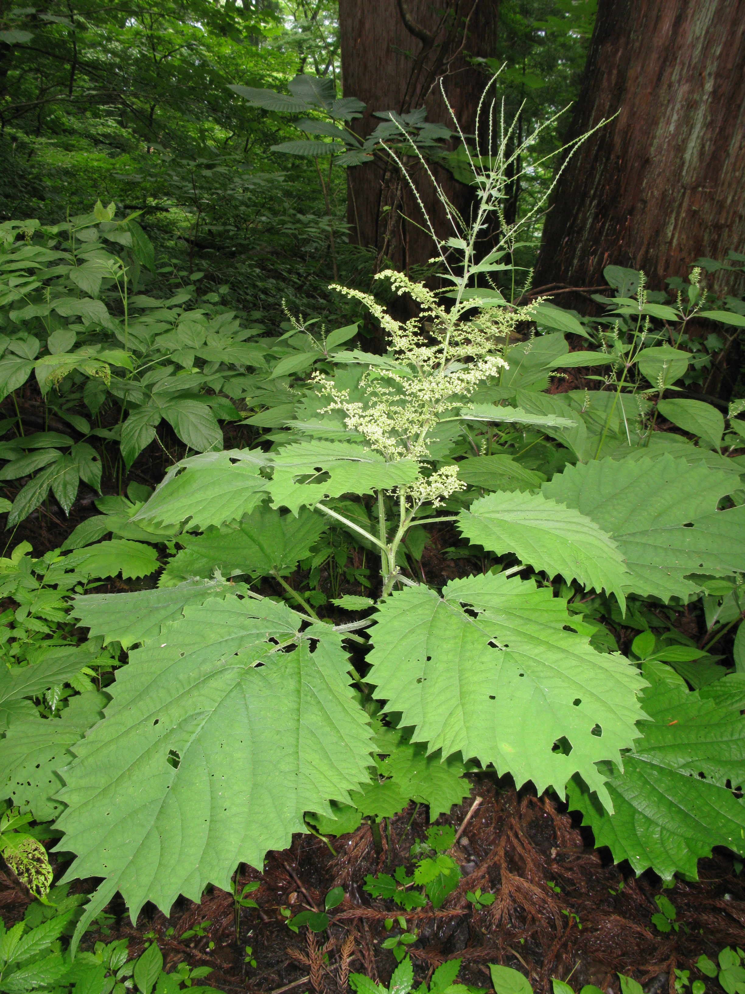 Laportea cuspidata, Aizu area, Fukushima pref., Japan